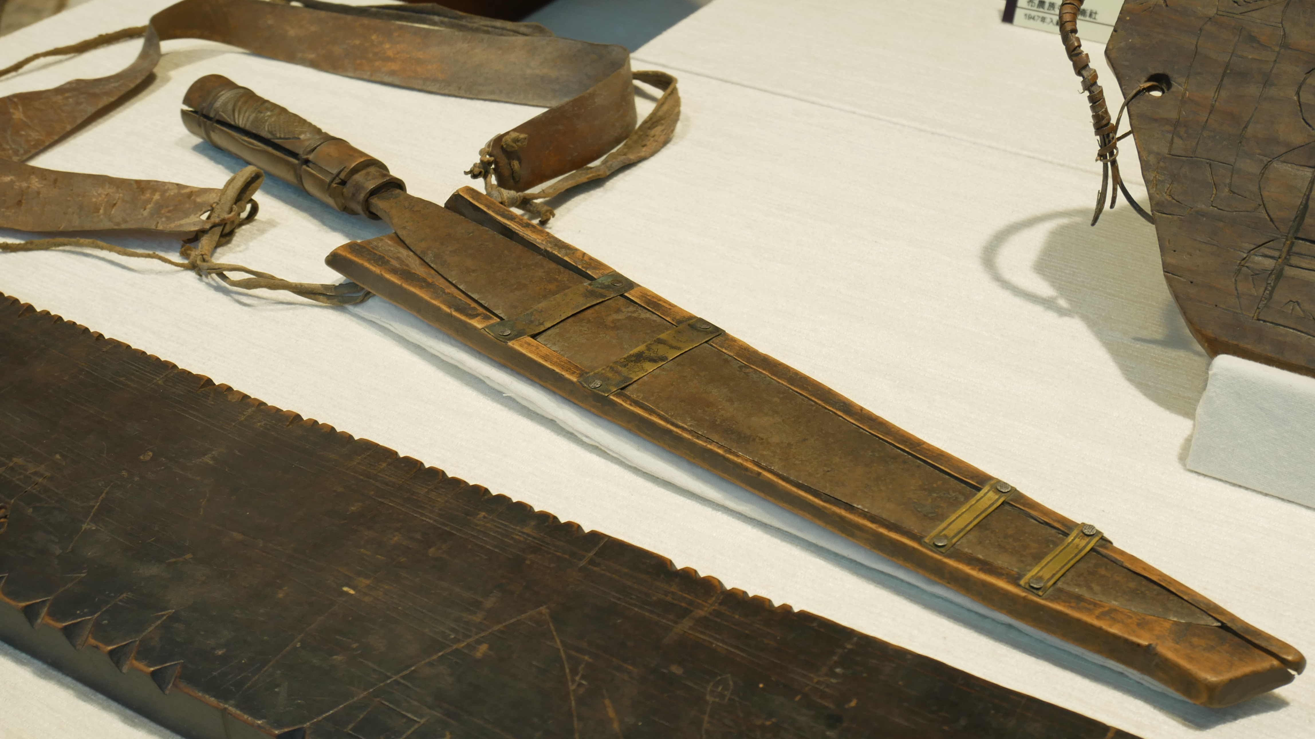 布農族男子佩刀，臺北市大安區學府次分區學府里